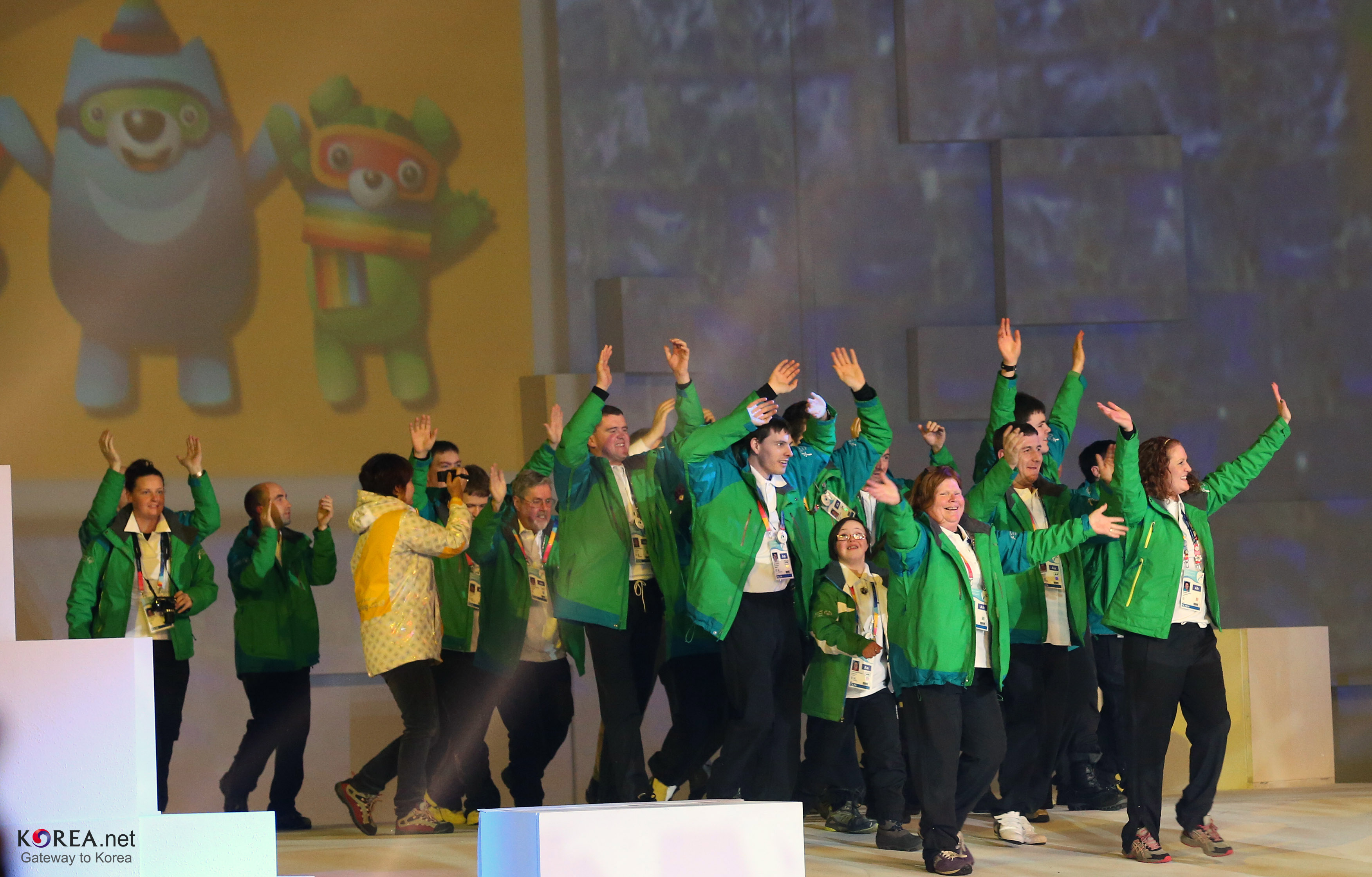 2013 PyeongChang The Special Olympics World Winter Games. Opening Ceremony.